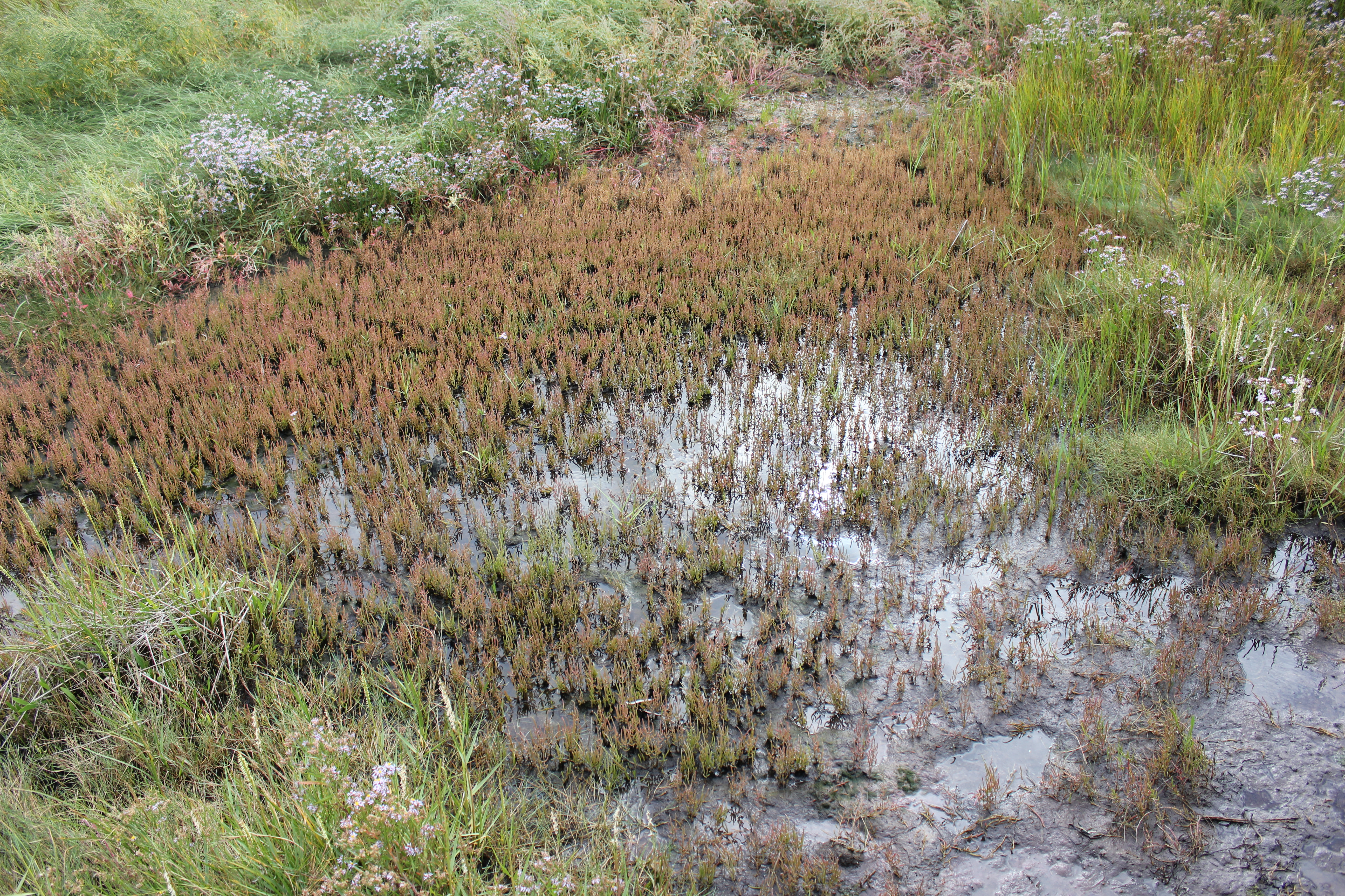 Salicornia europaea. Photo taken in odsherred, Denmark.